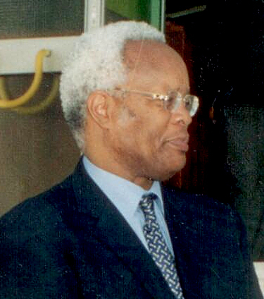 Edward Lowasa